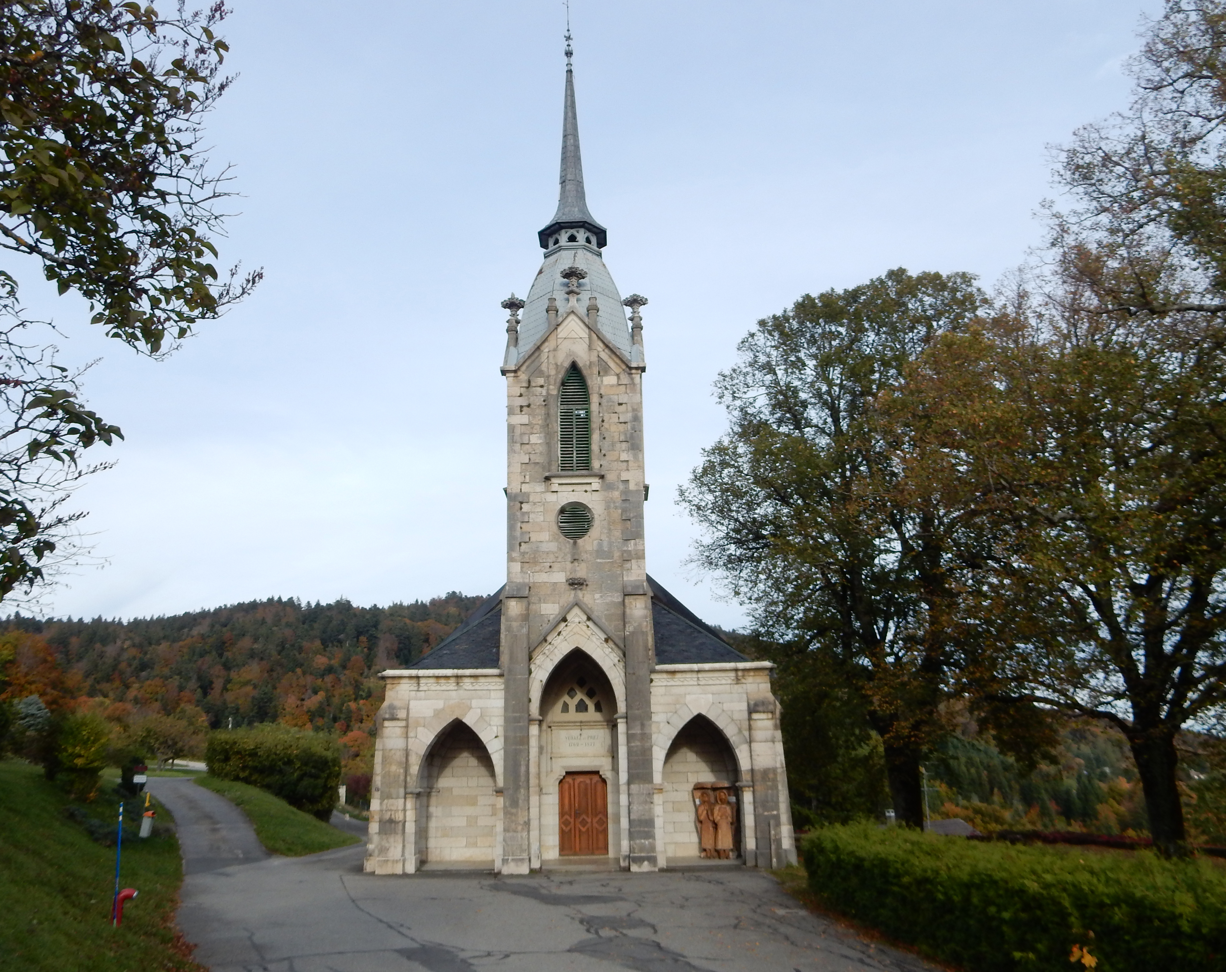 Saint-George (Vaud), protestant church